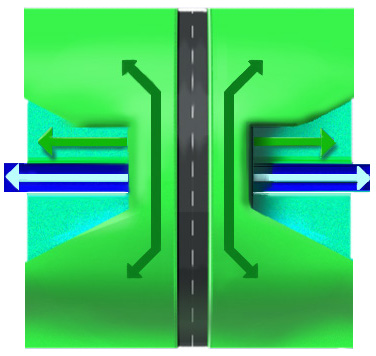 Very simplified block diagram of a écoduc (wildlife crossing) with multiple streams (from both sides of the road, a watercourse, and under the road), designed vith "diabolo" form. In reality; additional arrangements, adapted to animals and organisms we wish to see, are made through this type of fauna passages. (With trees, bushes, ponds, rocks, dead wood, etc.. To "reassure" the animals and allow them to hide or move silently). This type of passage is ideally not open to the public because human scent or the scent left by dogs can scare away some animals. Protection to limiting noise and artificial lighting, light beams or headlights could ideally installed along the upper portion